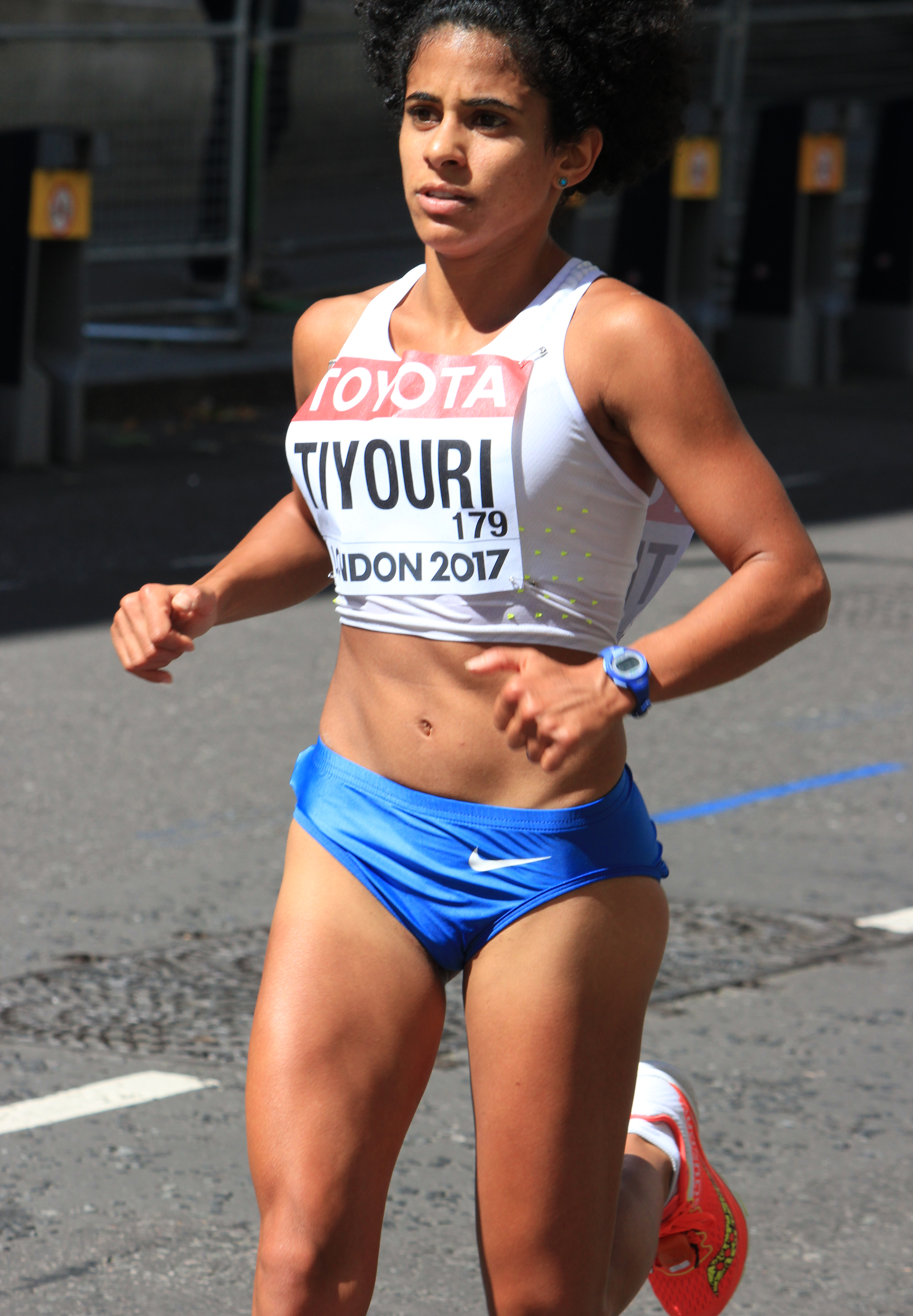 London, UK. World Championships Marathon